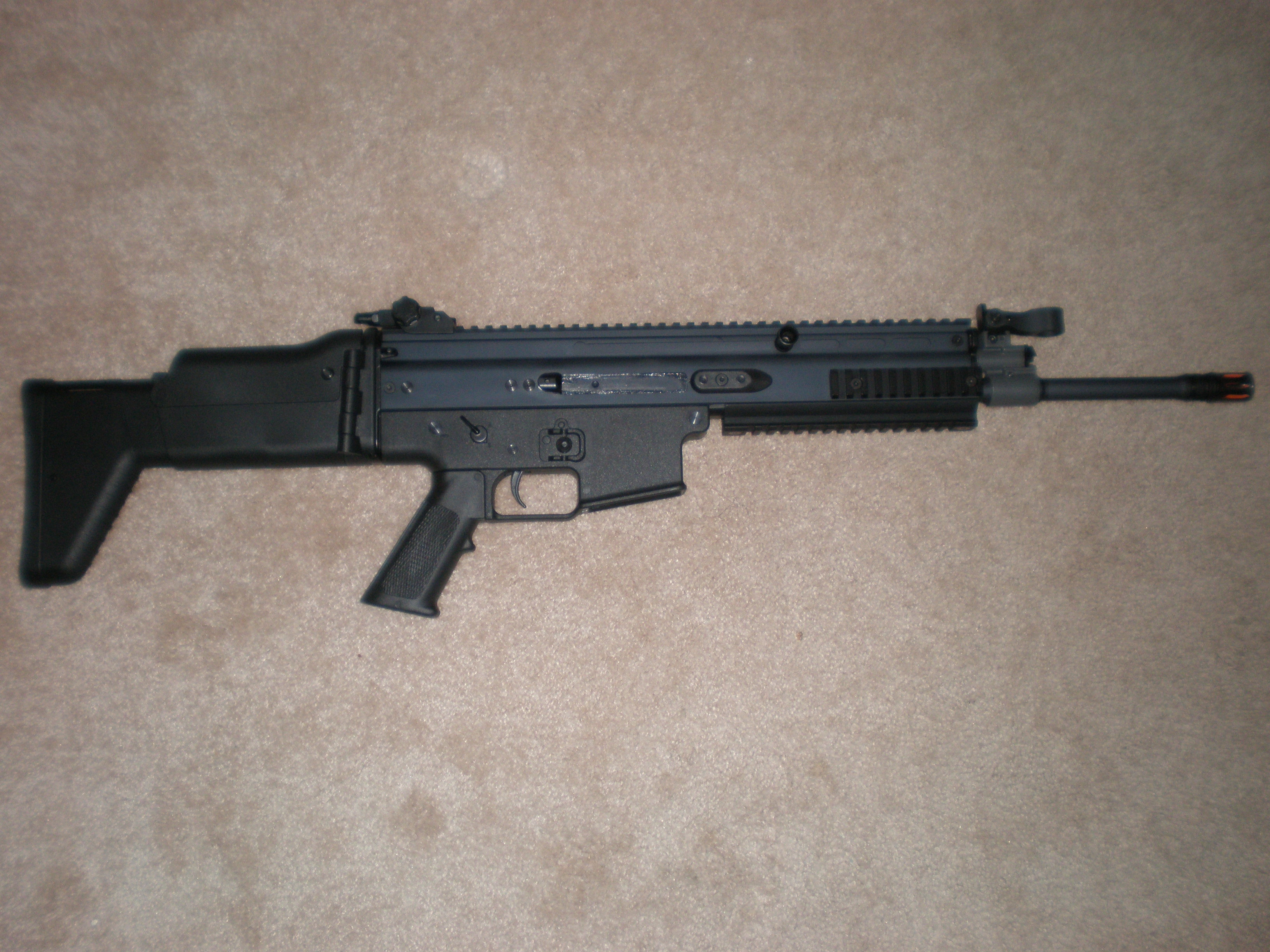 A Classic Army airsoft SCAR CQC.